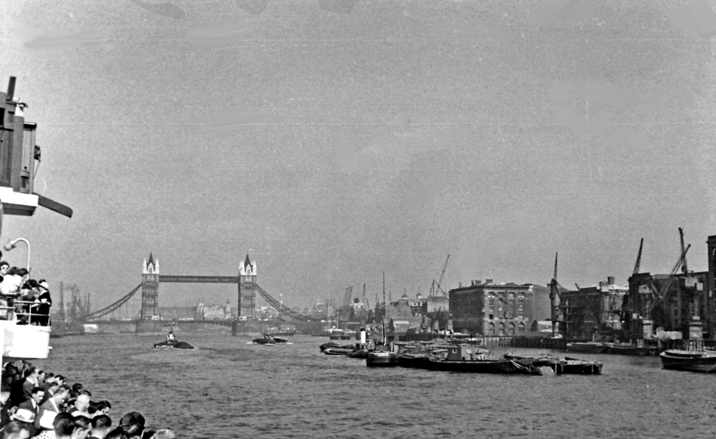 Upstream on the Thames in the Lower Pool, westward to Tower Bridge, 1950. View west from a pleasure steamer going down river all the way to Southend. Back in those days the River was teeming with barges and ships, the banks lined with wharfs and warehouse - Wapping on the right here.